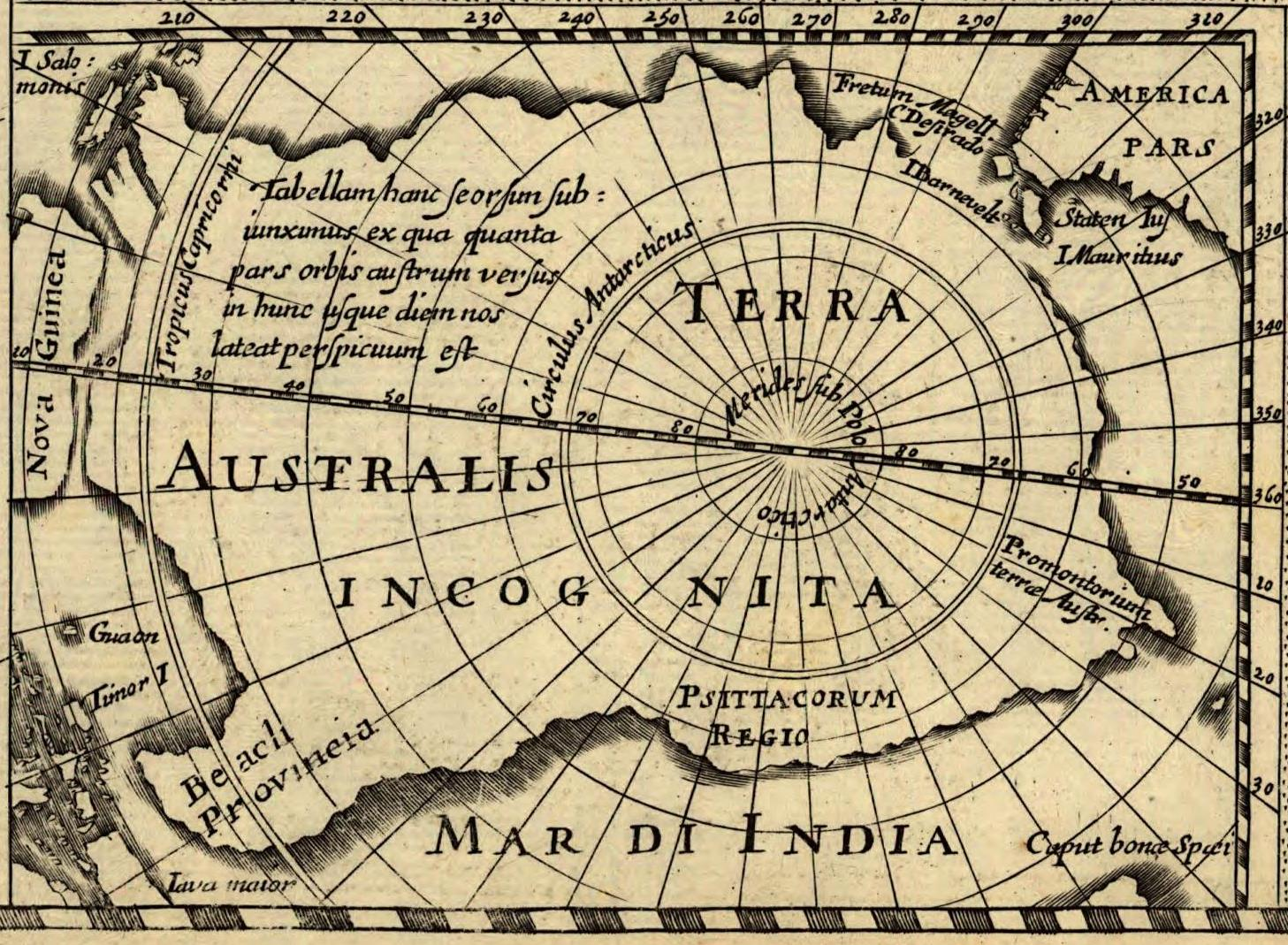 TERRA AUSTRALIS INCOGNITA, Hondius, 1618, pars tabulam AMERICA noviter delineata, auct. Jodoco Hondio, 1618; H. Picard fecit [1640].